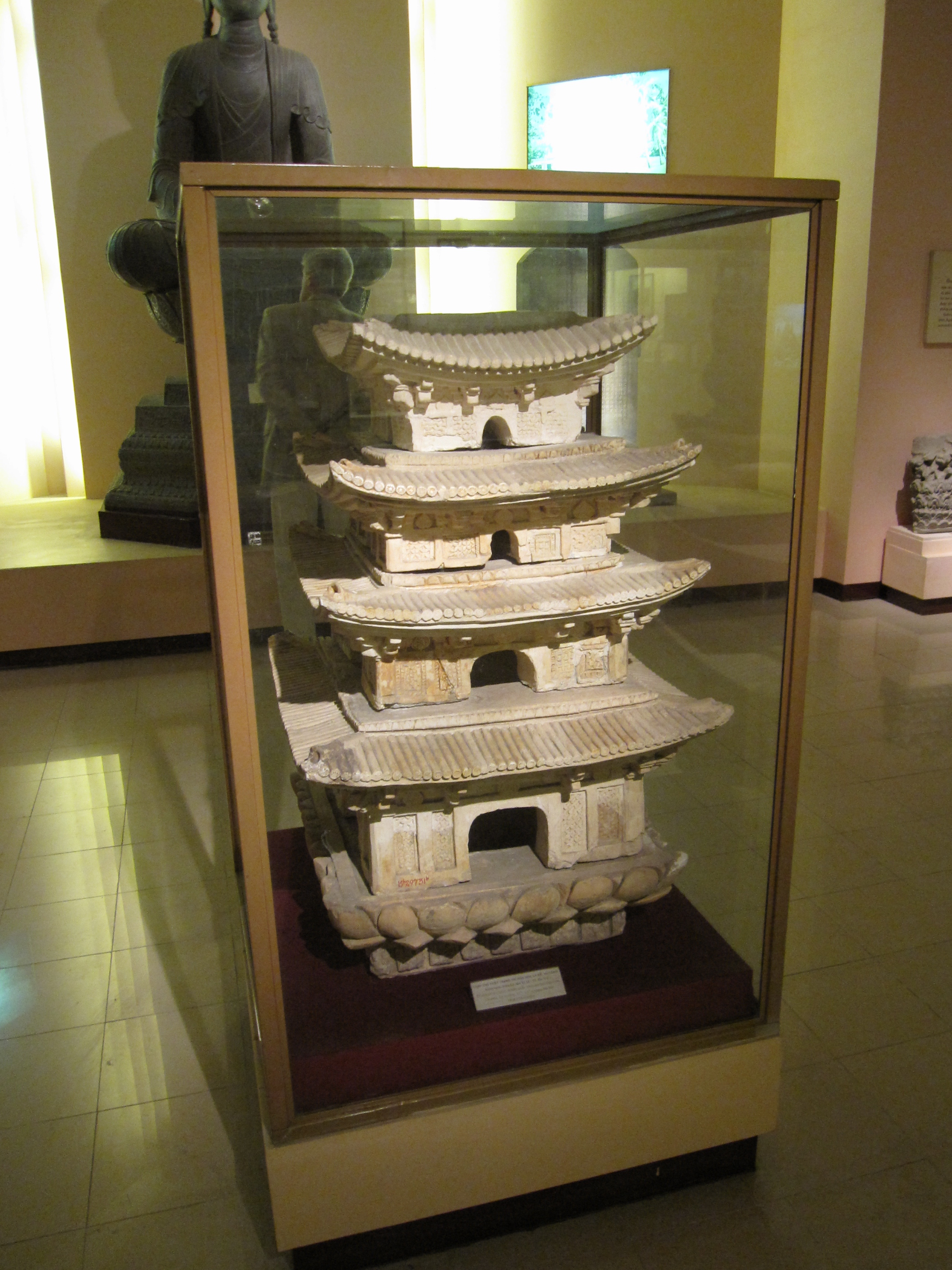 Pagoda with lotus, bodhi leaf, dancer decoration. Ceramic, Lý dynasty, 11th-13th century, Hanoi. Object for worship. National Museum of Vietnamese History, Hanoi.